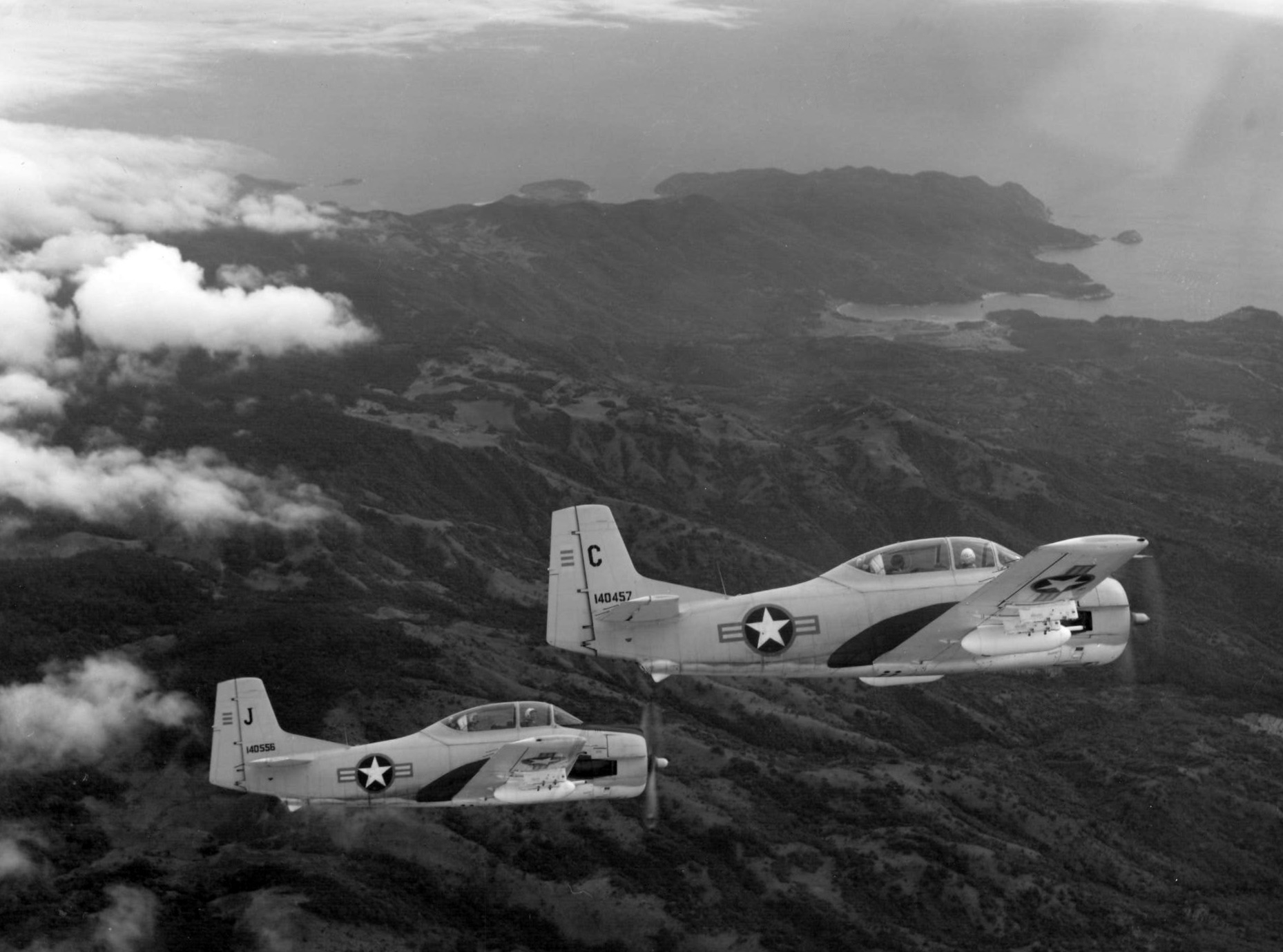 Two South Vietnamese Air Force North American T-28C Trojan aircraft (former U.S. Navy BuNos 140556, 140557) flying over the Vietnamese coastline during a counterinsurgency training mission in 1962.